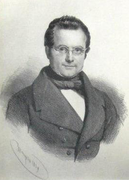 Nicolas Berger, member of the National Congress, member of the House of Representatives (1831-1841)